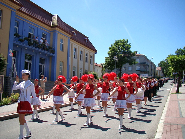 Economic Schools Complex in Sanok celebrates its 85th anniversary